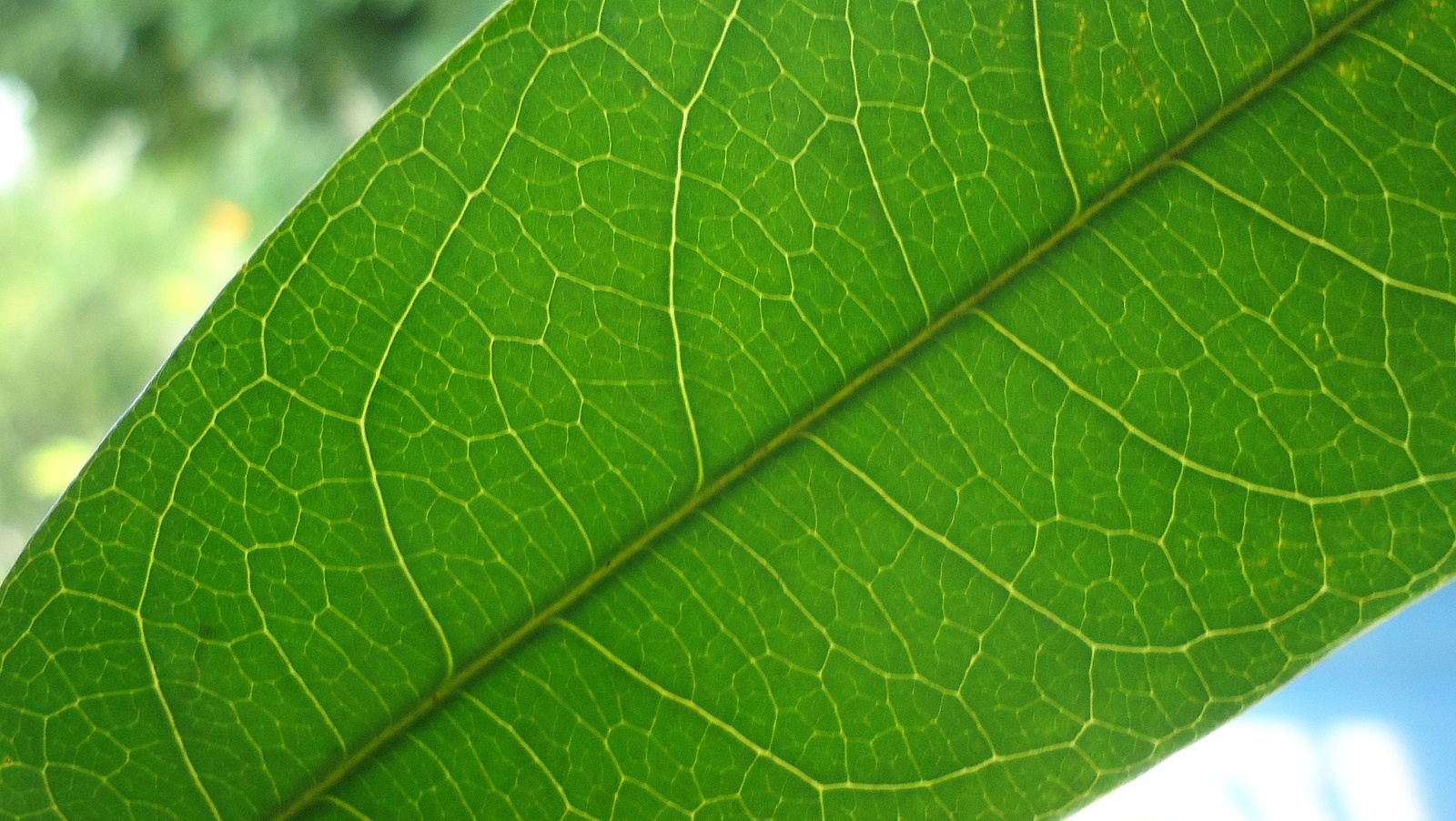 Guatteria australis A.St.-Hil., Annonaceae, Atlantic forest, northeastern Bahia, Brazil